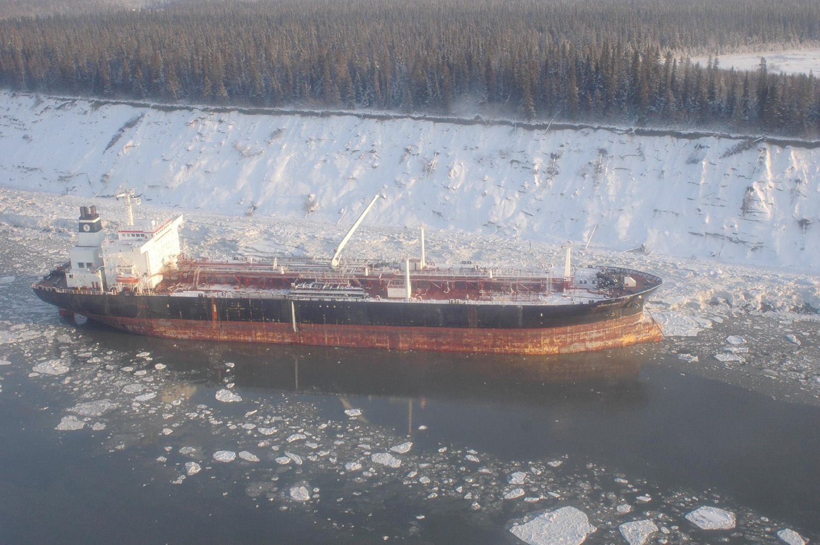 The oil tanker Seabulk Pride grounded a half a mile north of Kenai Pipeline Dock in Nikiski after heavy ice flow caused it to break free from its moorings, February 2, 2006 IMO Number: 9118630 MMSI Number: 366088000 Callsign: WCY7052 Length: 184 m Beam: 30 m